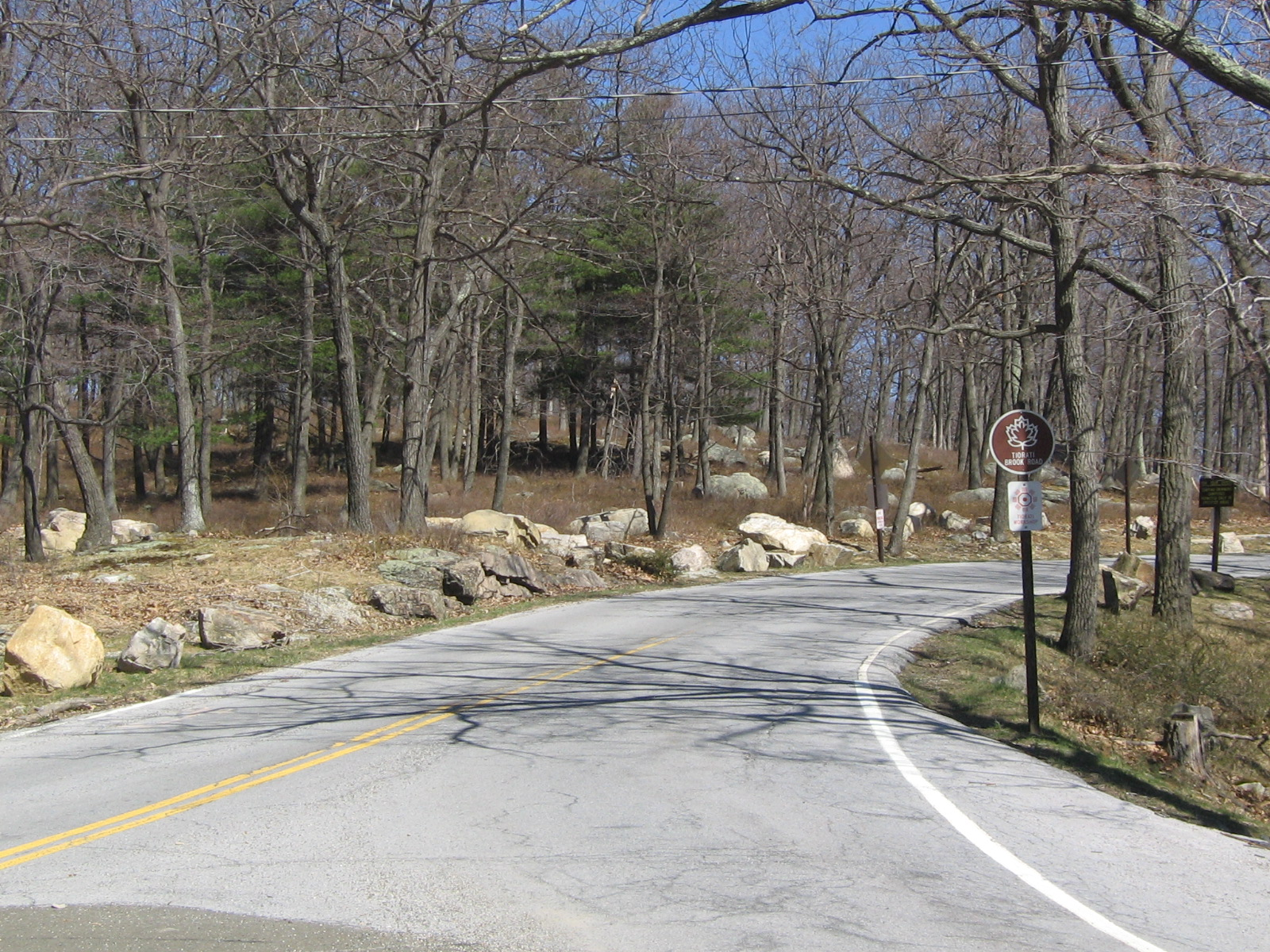 The western beginning of Tiorati Brook Road in Harriman State Park. The PIPC shield also includes a sign for the Tiorati Workshop.